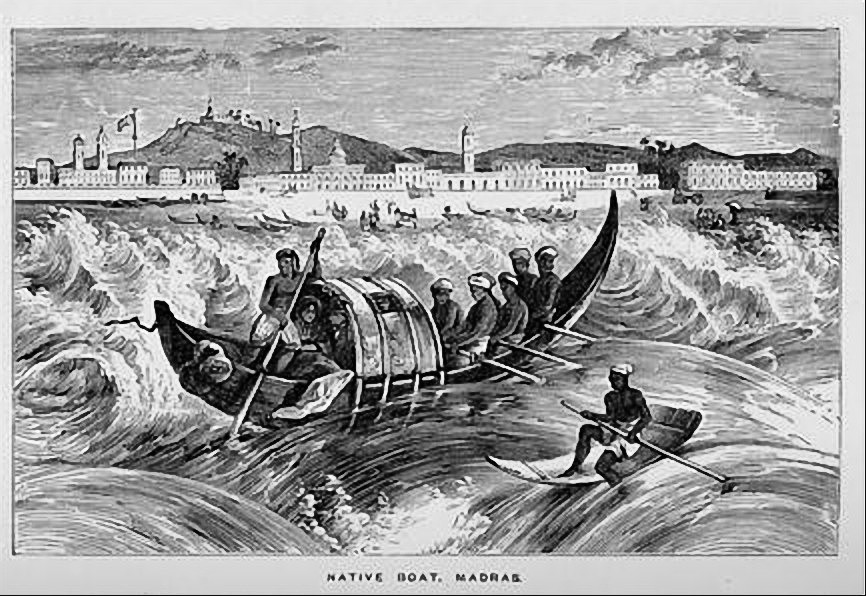 Illustration from "The Story of Ida Pfeiffer and her Travels in many Lands", Thomas Nelson and Sons, London, Edinburgh and New York.